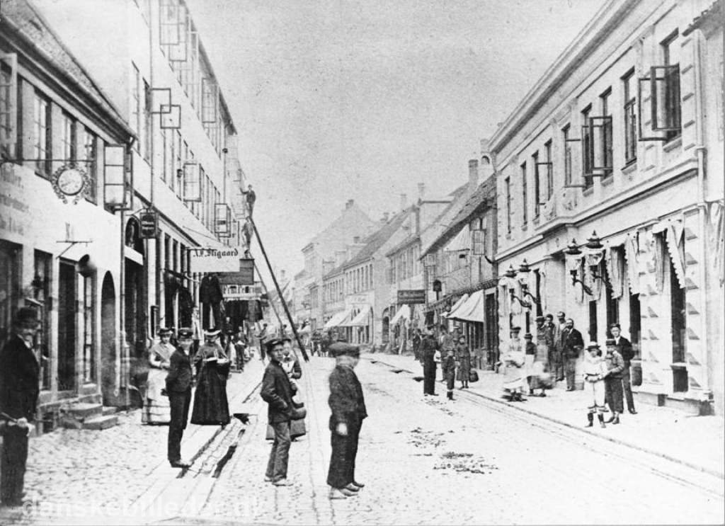 Vestergade med nybyggerbyens lave huse intakt